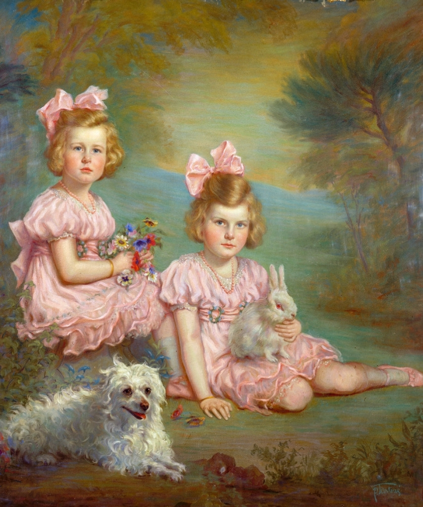 Pastel double portrait of Eleanor Post Close (left) and Adelaide Brevoort Close, daughters of Edward B. Close and Marjorie Merriweather Post. The girls are wearing pink dresses and pink bows in their hair. Eleanor holds a boquet of flowers while Adelaide holds a white rabbit in her lap. A small white dog sits nearby.